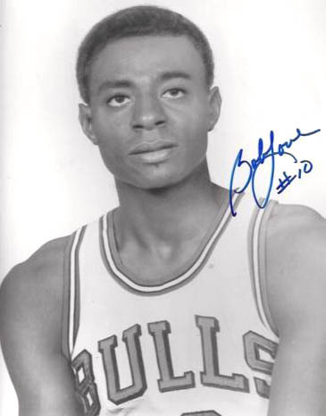 Former Chicago Bull player, Bob Love.